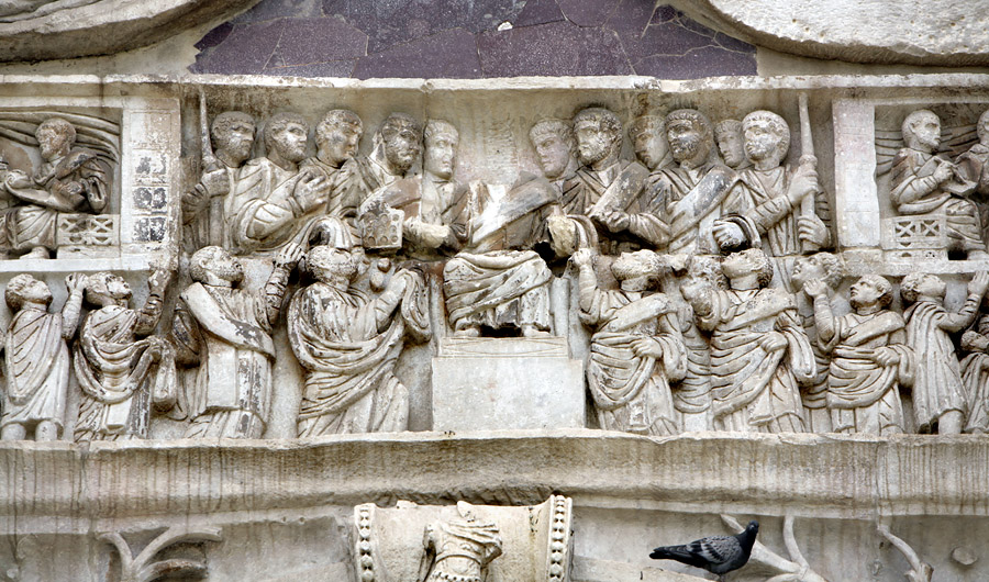 The last scene (North side of arch) in the Constantinian frieze on the Arch of Constantine. It recalls Marcus Aurelius in the liberalitas attic panel of the arch, overseeing the distribution of gifts to the public. Constantine is in the exact center of the frieze (in the center of this photo), seated on a podium (his head is missing). The similarity to Christian depictions of the throned Christ surrounded by disciples - intentional or coincidental - is obvious. Constantine's right hand holds a tessera with slots for coins, some of which are falling out to be caught in the toga of a senator who gazes up at his benevolent leader.